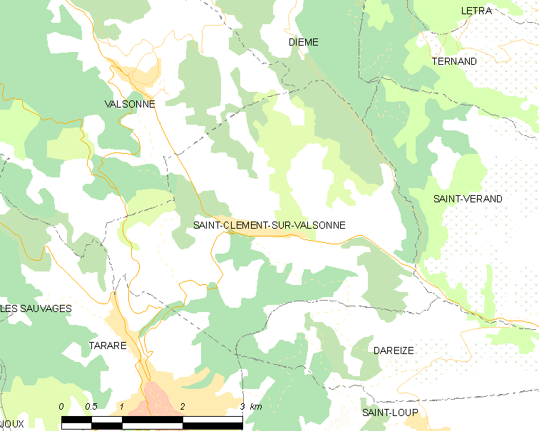 Map of French municipality